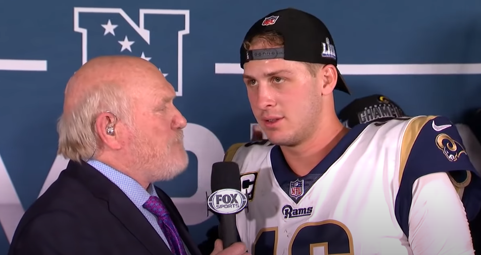 In 2019